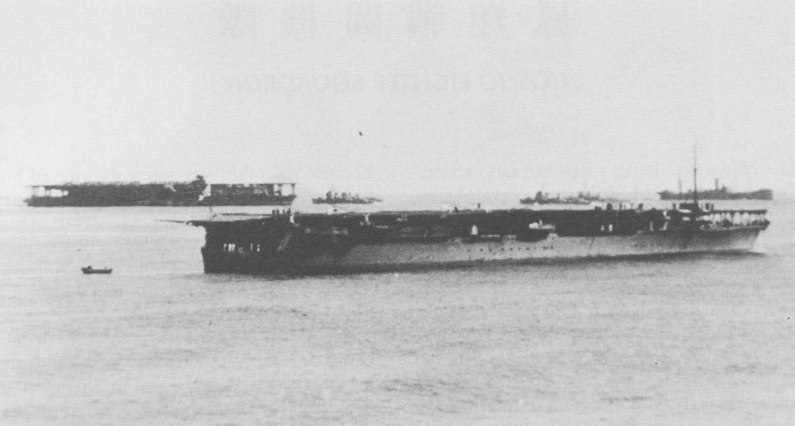 Imperial Japanese Navy aircraft carriers Hōshō (foreground) and Kaga (background) at an unknown location during the China Incident in 1937.